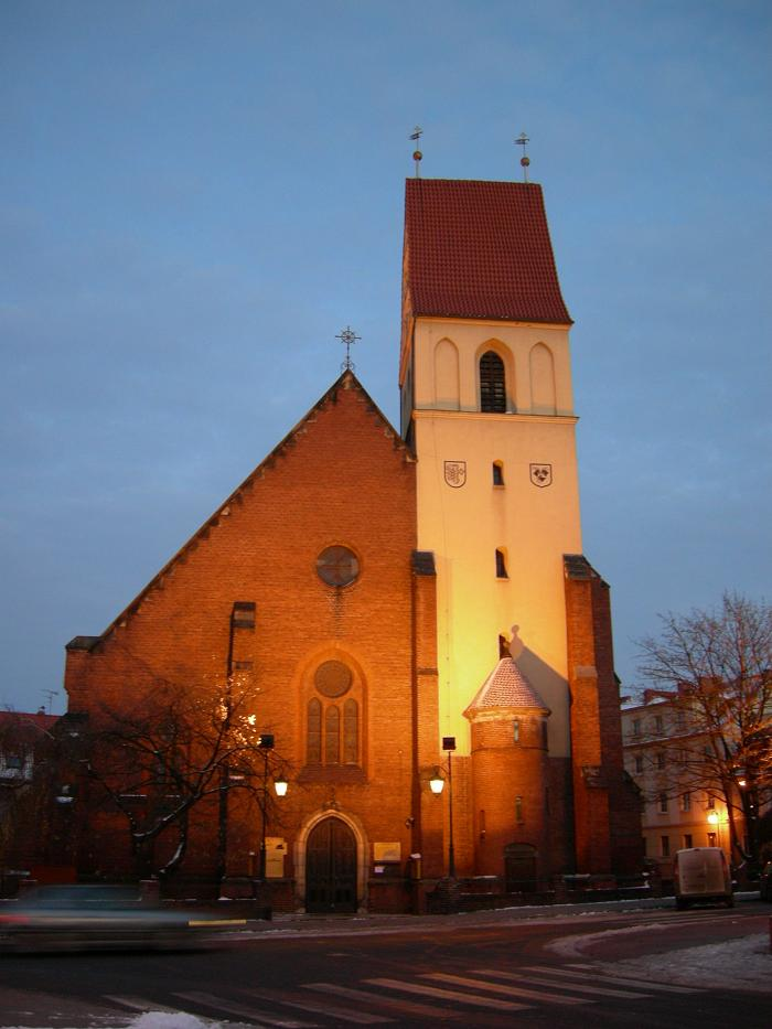 Saint Sigismond and Saint Edwige of Silesia church in Koźle.